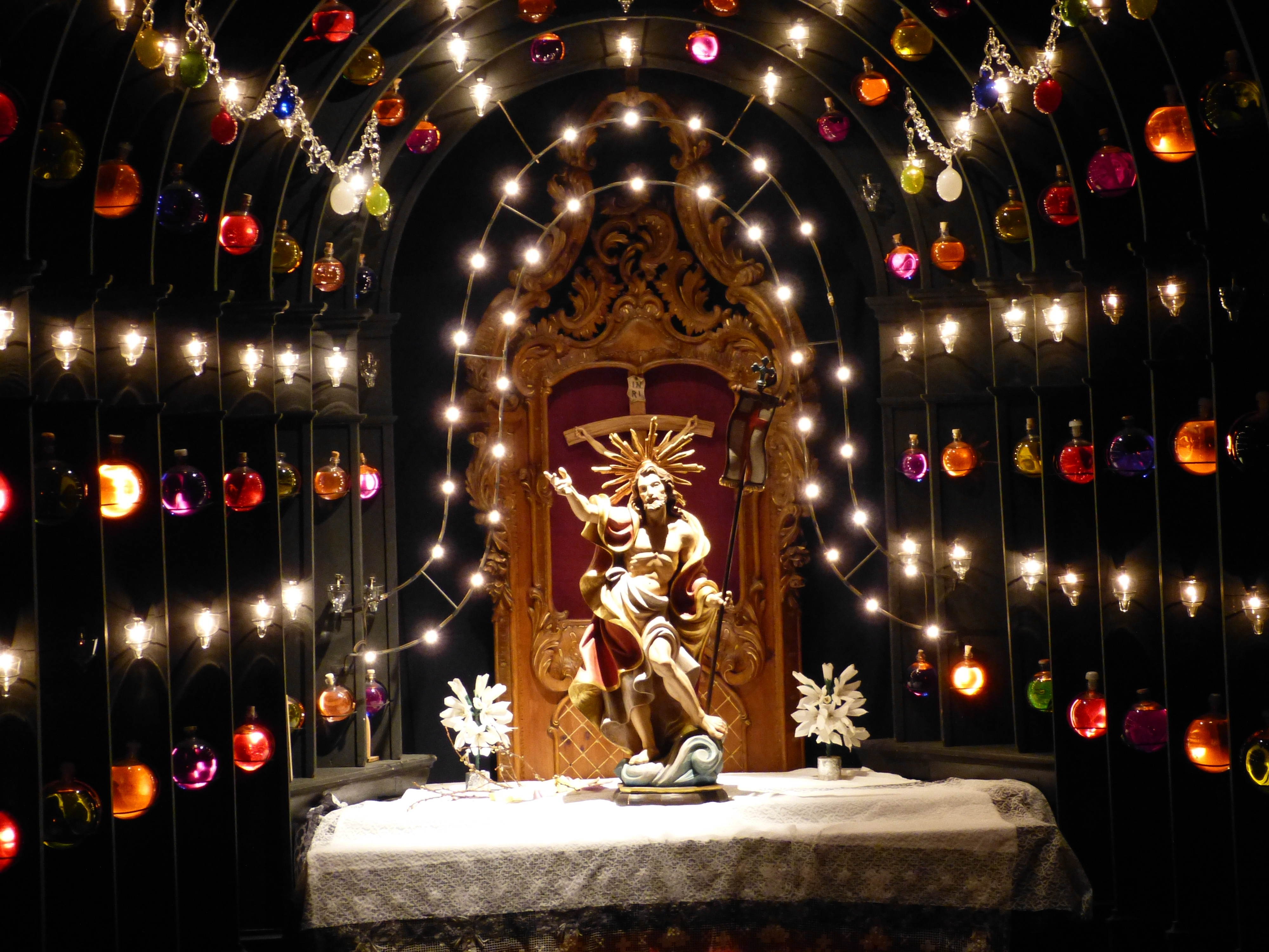 Schwarzenberg (Upper Austria). Local museum: Holy Sepulchre (1854) by Johann Mayr.